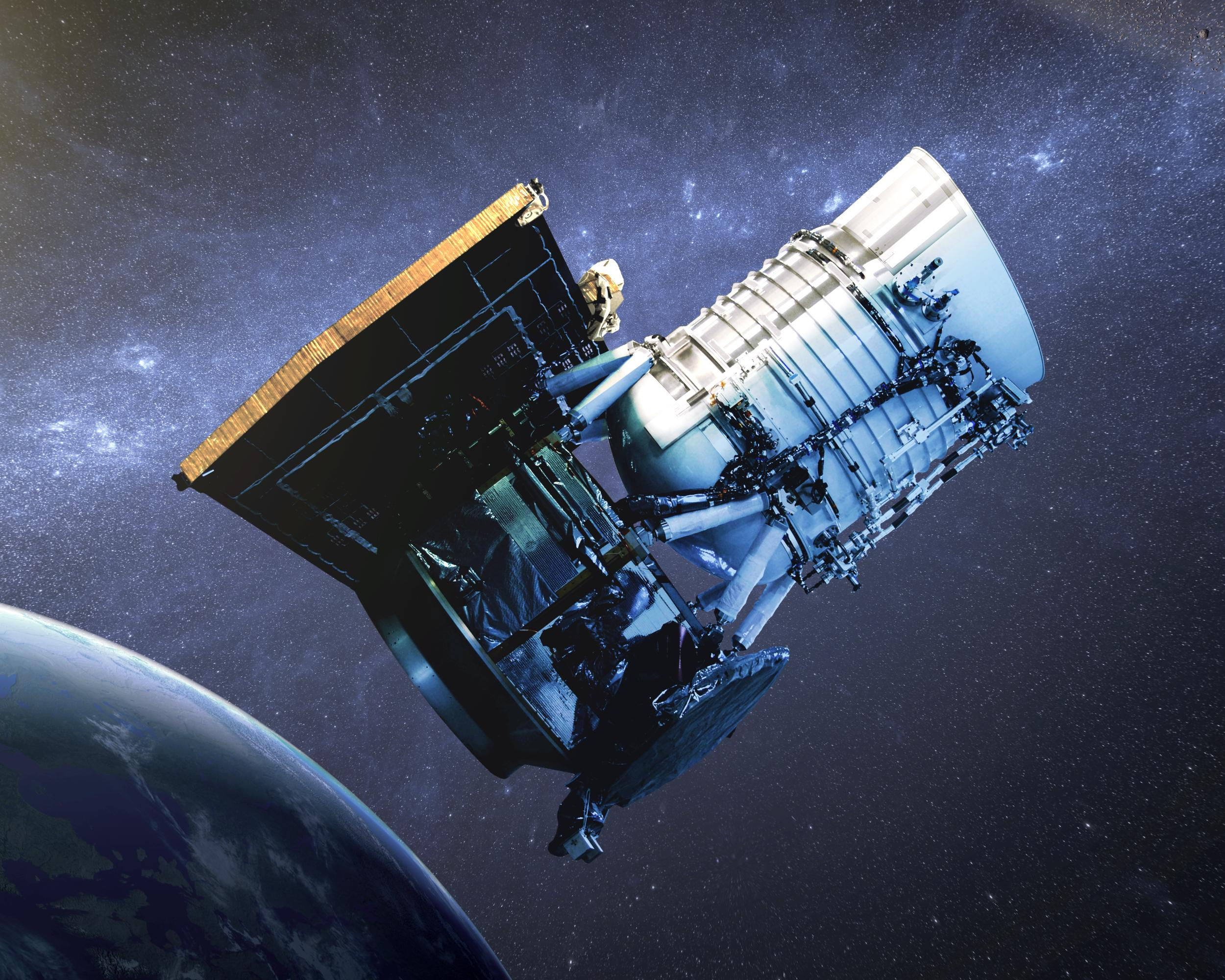 This artist's concept shows the Wide-field Infrared Survey Explorer, or WISE spacecraft, in its orbit around Earth. In September of 2013, engineers will attempt to bring the mission out of hibernation to hunt for more asteroids and comets in a project called NEOWISE. From 2010 to 2011, the WISE mission scanned the sky twice in infrared light not just for asteroids and comets but also stars, galaxies and other objects. Back then, the asteroid-hunting portion of the mission was named NEOWISE, which combines the acronyms for near-Earth objects (NEOs) and WISE. NEOs are those asteroids with orbits that come relatively close to Earth. Now, in its second "lease on life", the mission will be dedicated to asteroid and comet surveying.